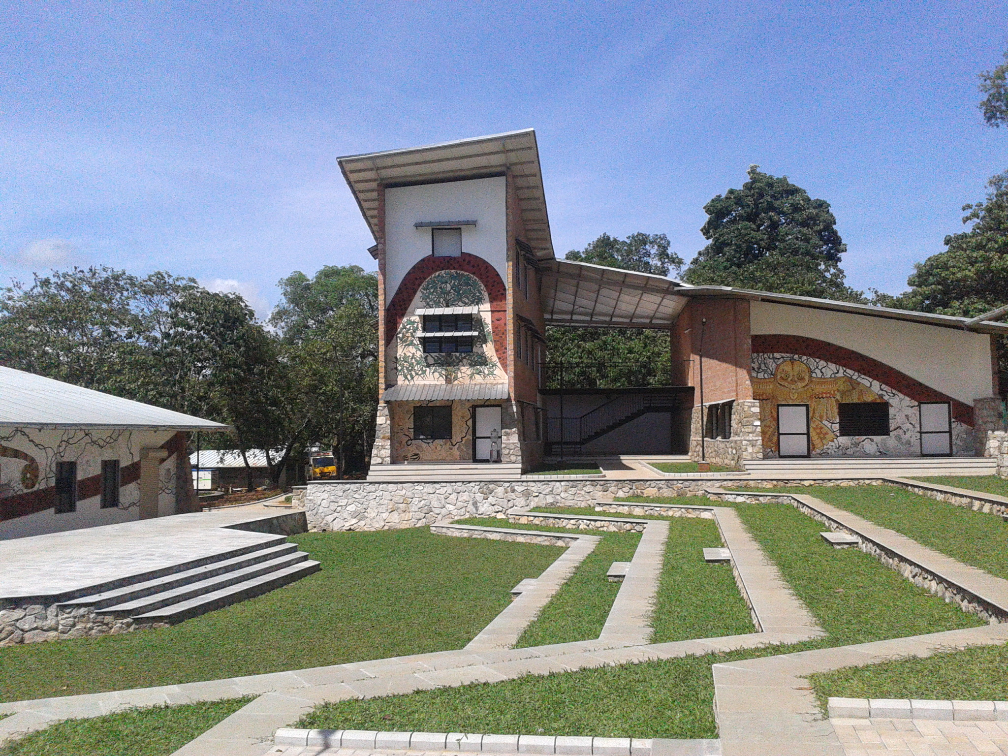 The Kerala State Institute of Design (KSID), Kollam campus